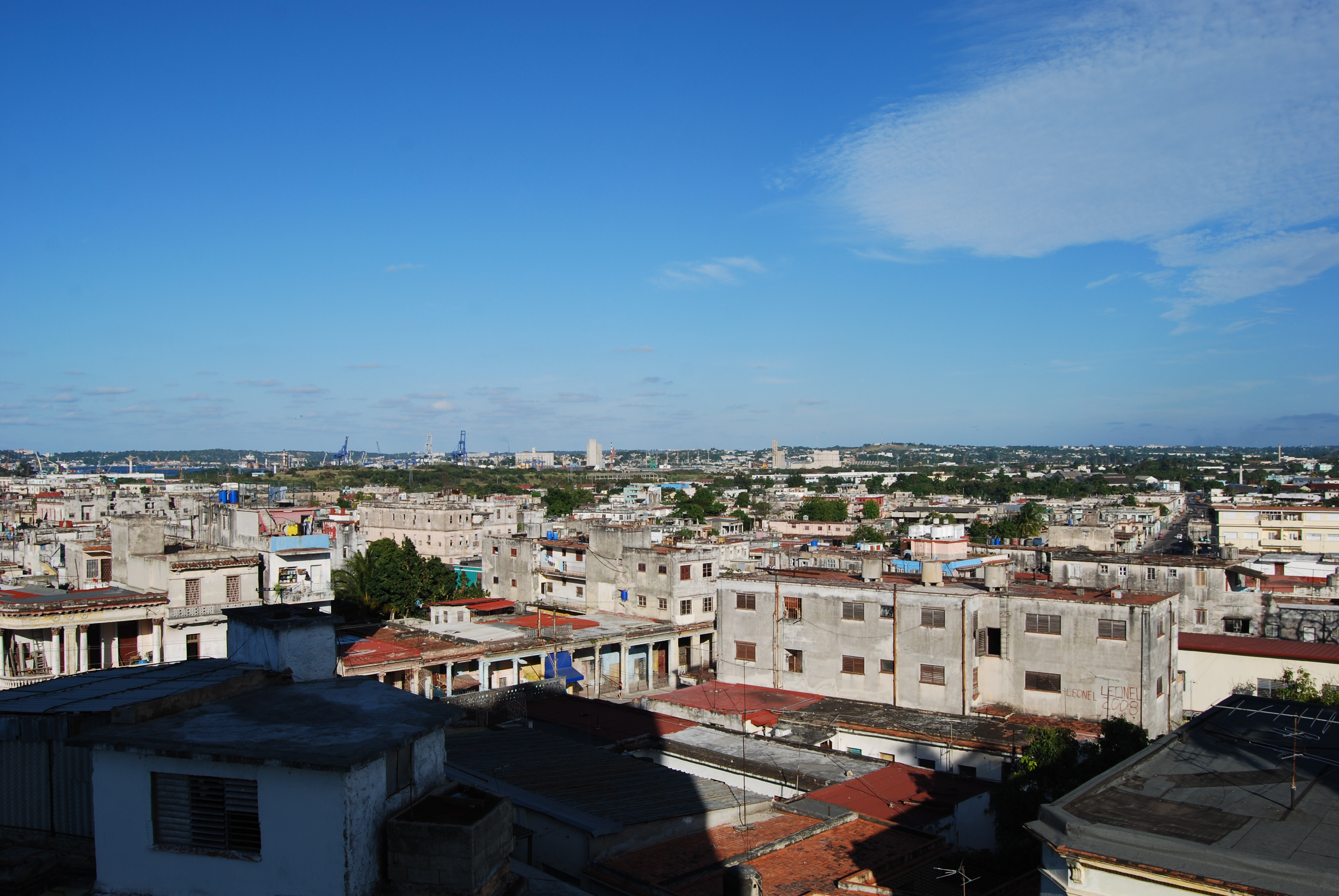 Diez de Octubre (seen from a vindoy of the Hospital of Luyanó), Cuba